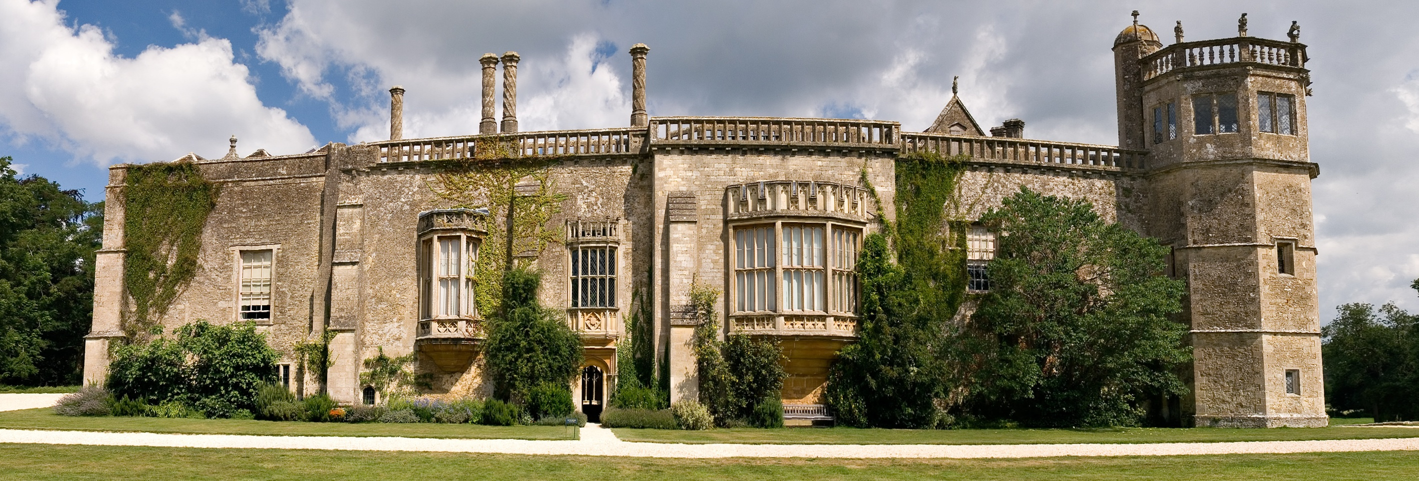 Panoramic view of Lacock Abbey